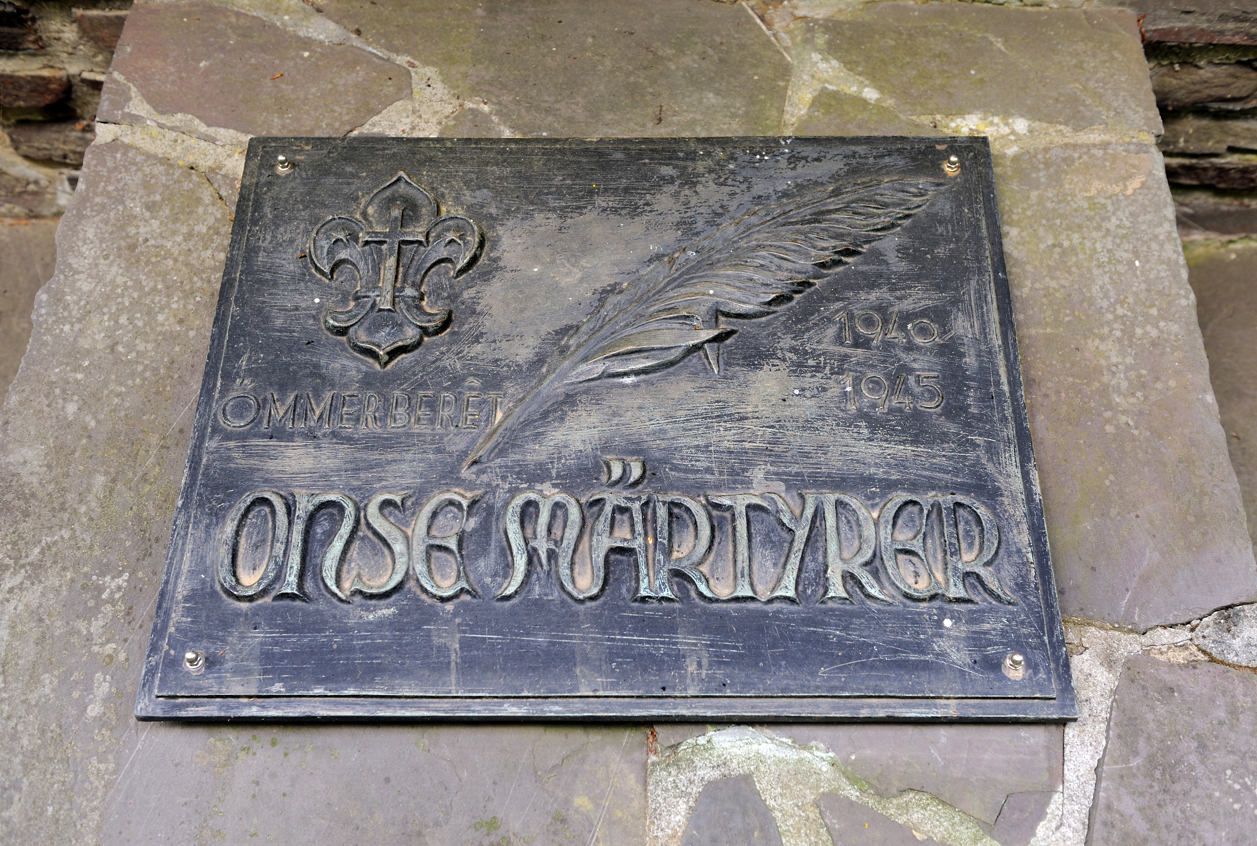 Luxembourg, Neuhaeusgen chapel: plaque commemorating the victims of the scouts resistance movement during World War II (1940-1945)